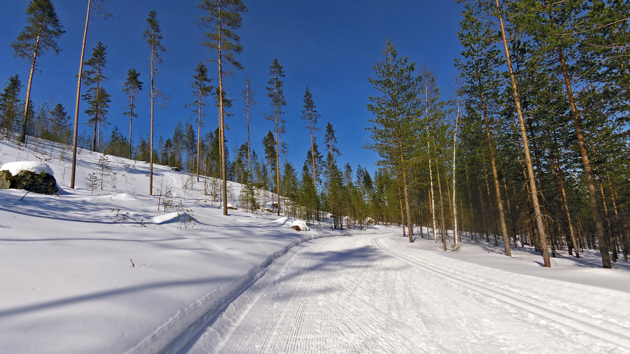 Ski track in Muuramenharju recreational route, Muurame.